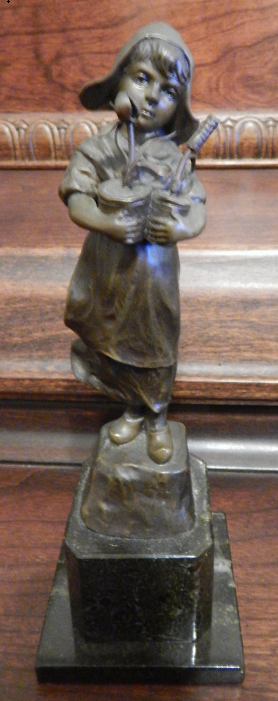 A circa 1890 bronze sculpture of a girl holding flowers by German sculptor Julius Paul Schmidt-Felling (1835-1920).